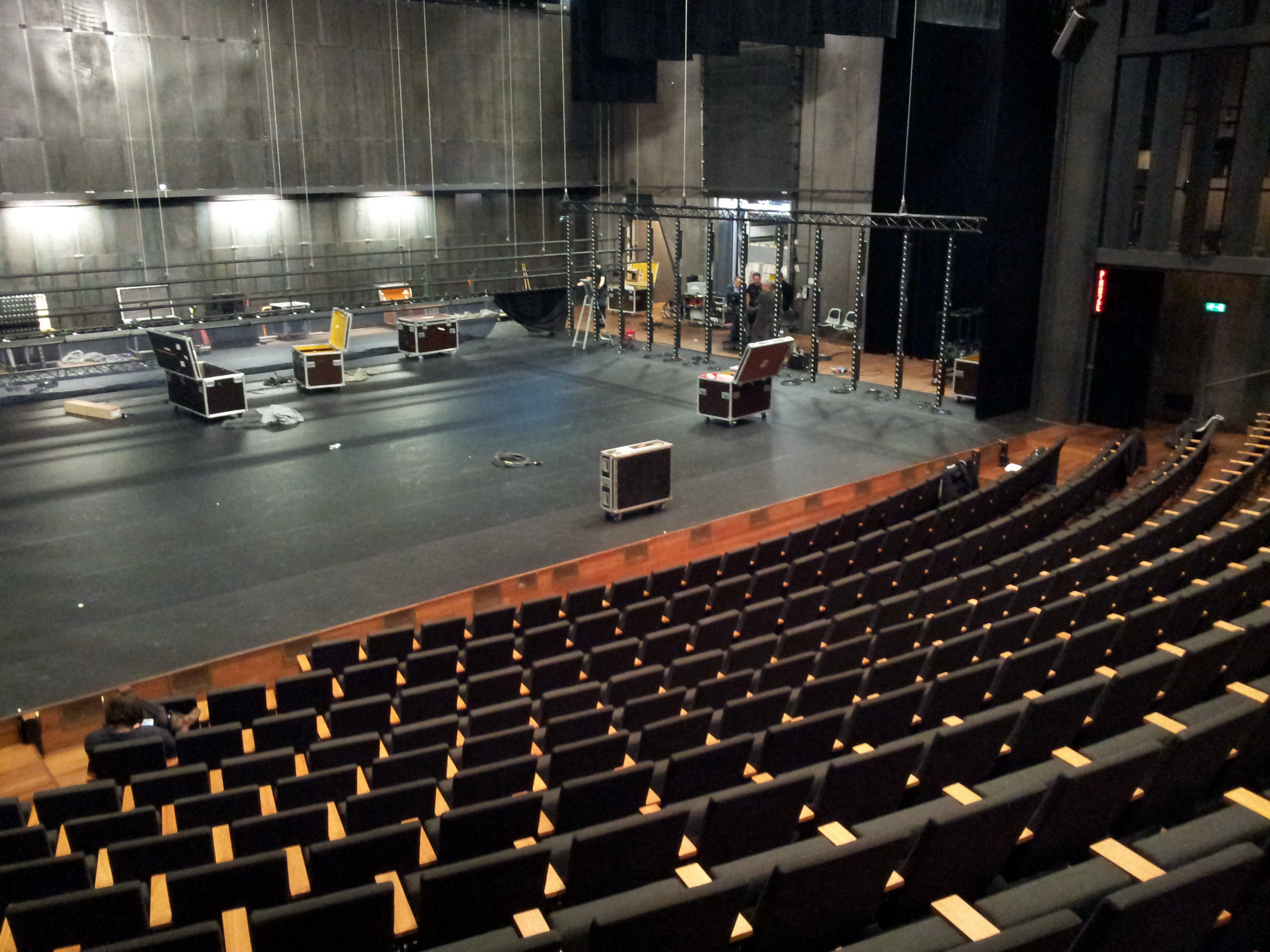 Amsterdam, the Netherlands. Interior of Rabo Zaal in the new extension of Stadsschouwburg, Amsterdam's municipal theatre on Leidseplein. The hall is used by Stadsschouwburg, Toneelgroep Amsterdam and Melkweg.